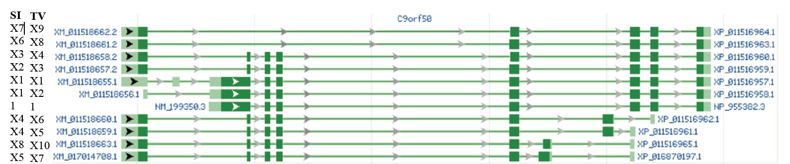 C9orf50 Isoforms and Transcript Variants from NCBI